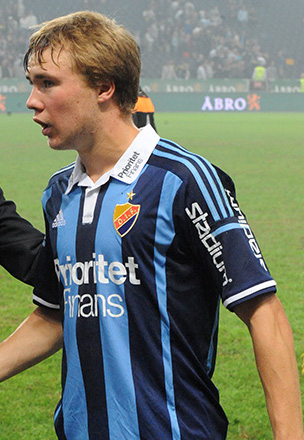 Simon Tibbling (cropped version)